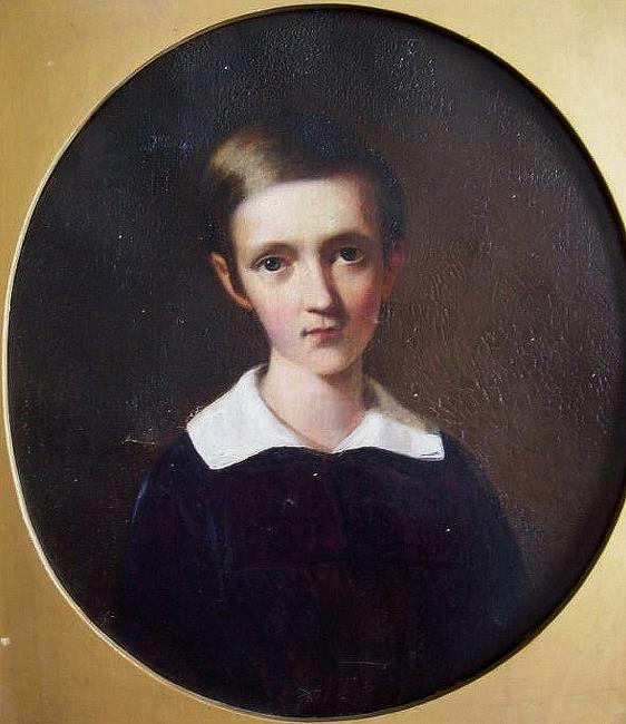 Portrait of Arnoud David Willink (1836-1847), pupil at Instituut Noorthey, a Dutch boarding school in Veur (Leidschendam/Voorschoten). Painting by (after?) Johann Georg Schwartze. Image cropped from oval painting. Original painting in Museum Voorschoten (the Netherlands)